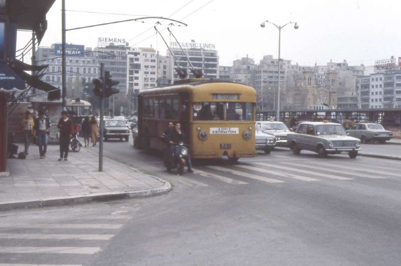 Fiat 656 F trolleybus in Piraeus, 1981, on line 20